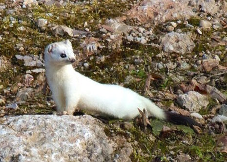 a Mustela erminea in its winter coat